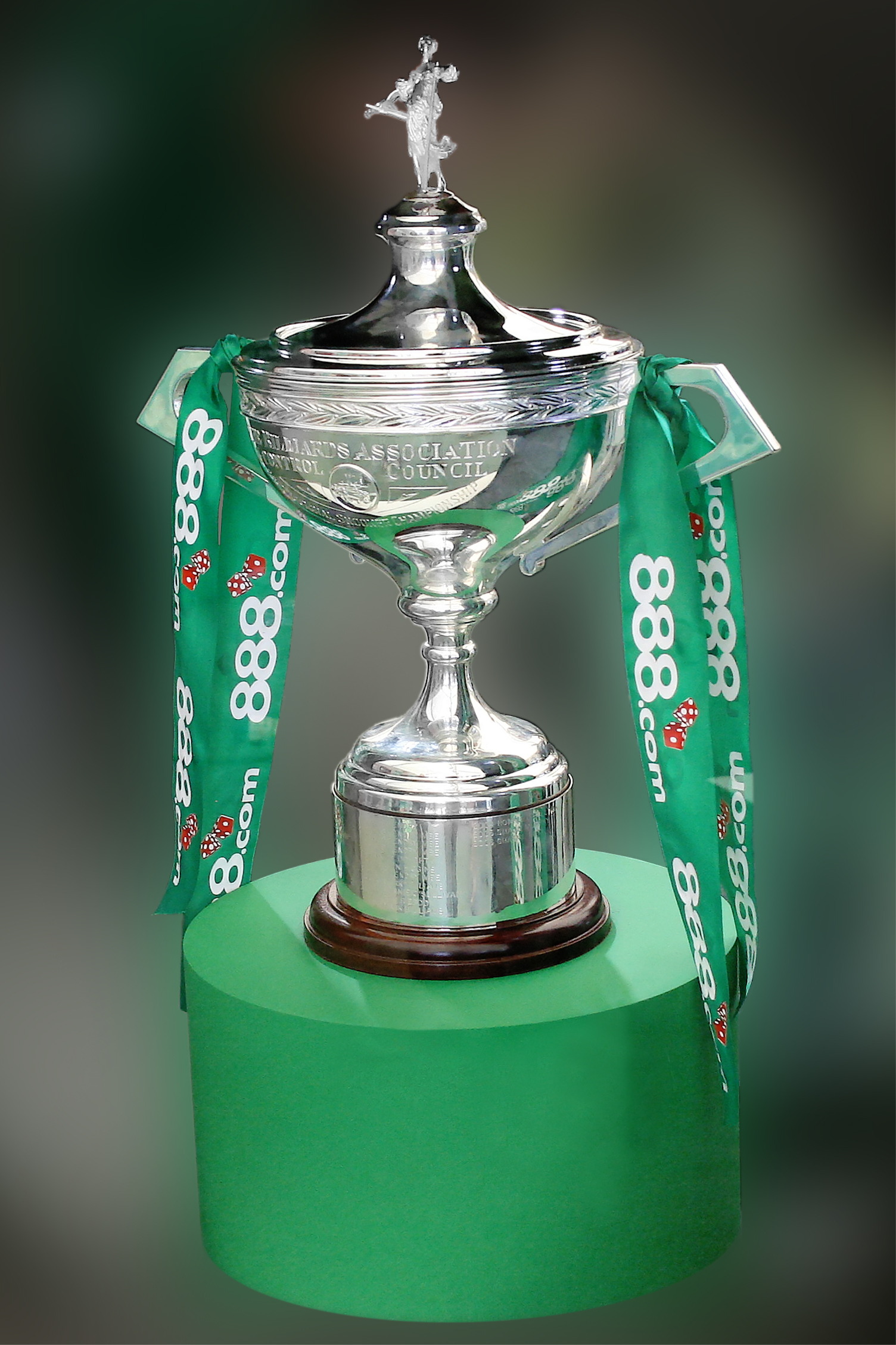 The World Snooker Championship Trophy on display at "The Cue Zone" outside the Crucible Theatre in Sheffield 2007